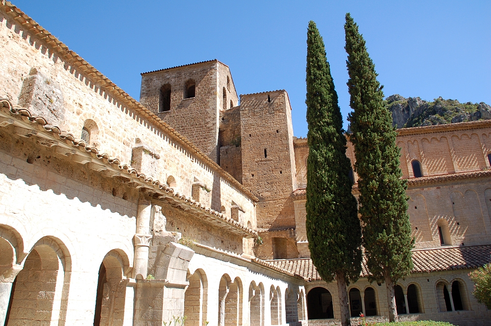 Saint-Guilhem-le-Désert, Languedoc-Roussillon, France